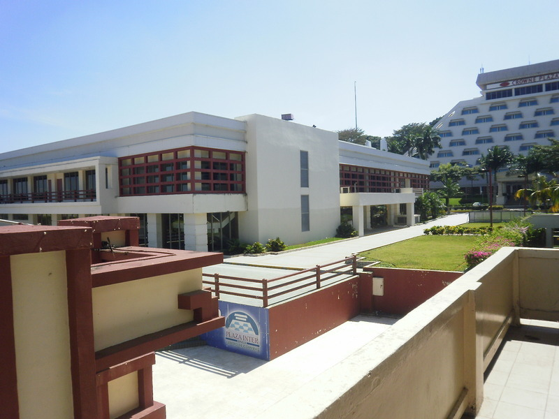 View from the third floor of Plaza Inter. Hotel Crowne Plaza Managua and Convention Center in the background.